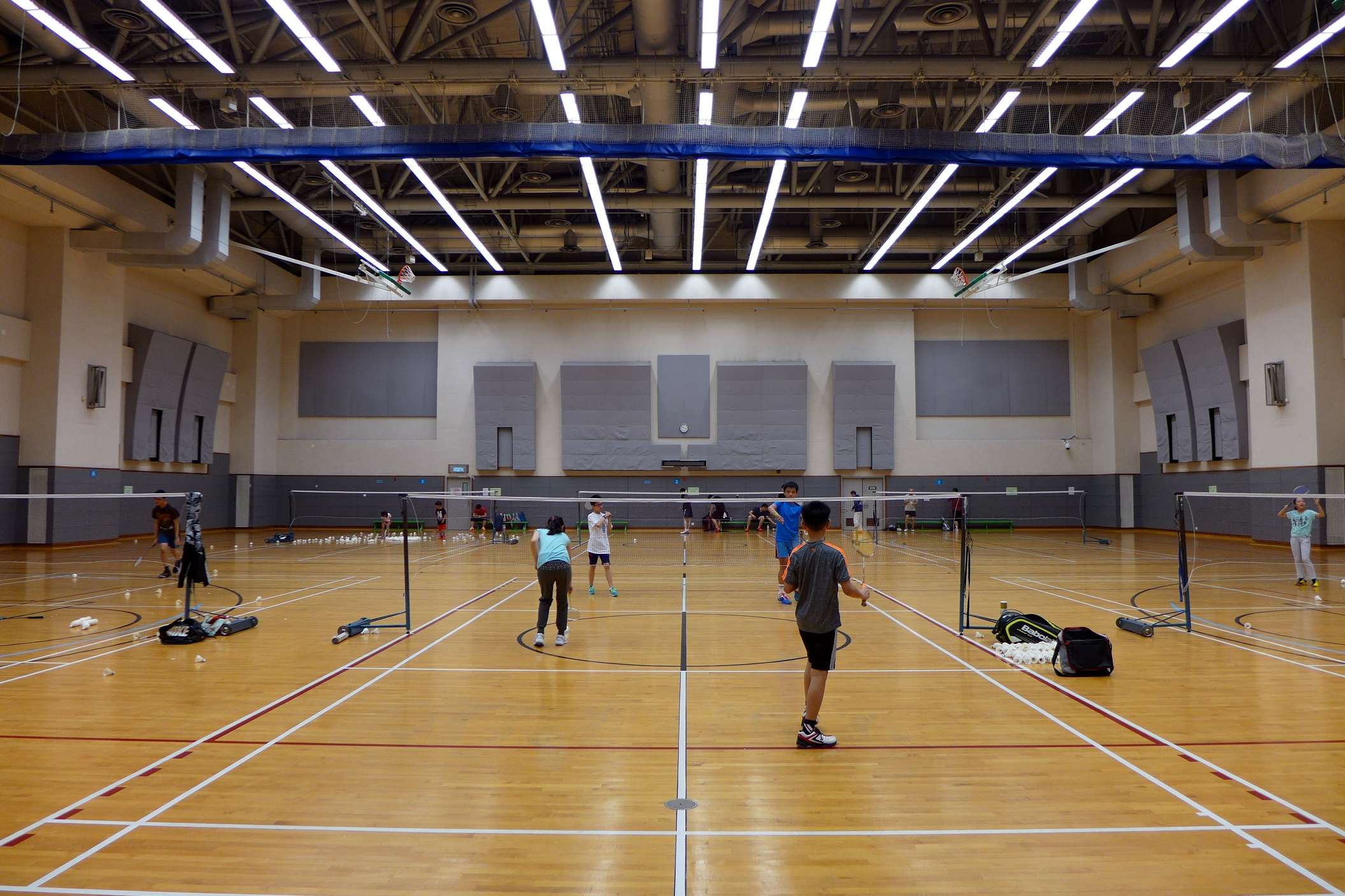 Island East Sports Centre